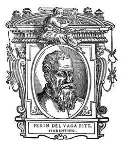 Illustratio from "Le Vite" by Giorgio Vasari, edition of 1568. For the artist portrayed see filename